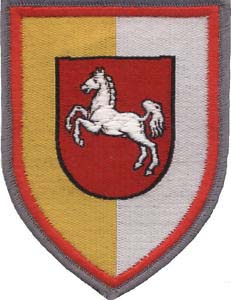 coat of arms of the Bundeswehr (Armed Forces of the Federal Republic of Germany). → Remarks on naming and categorization scheme